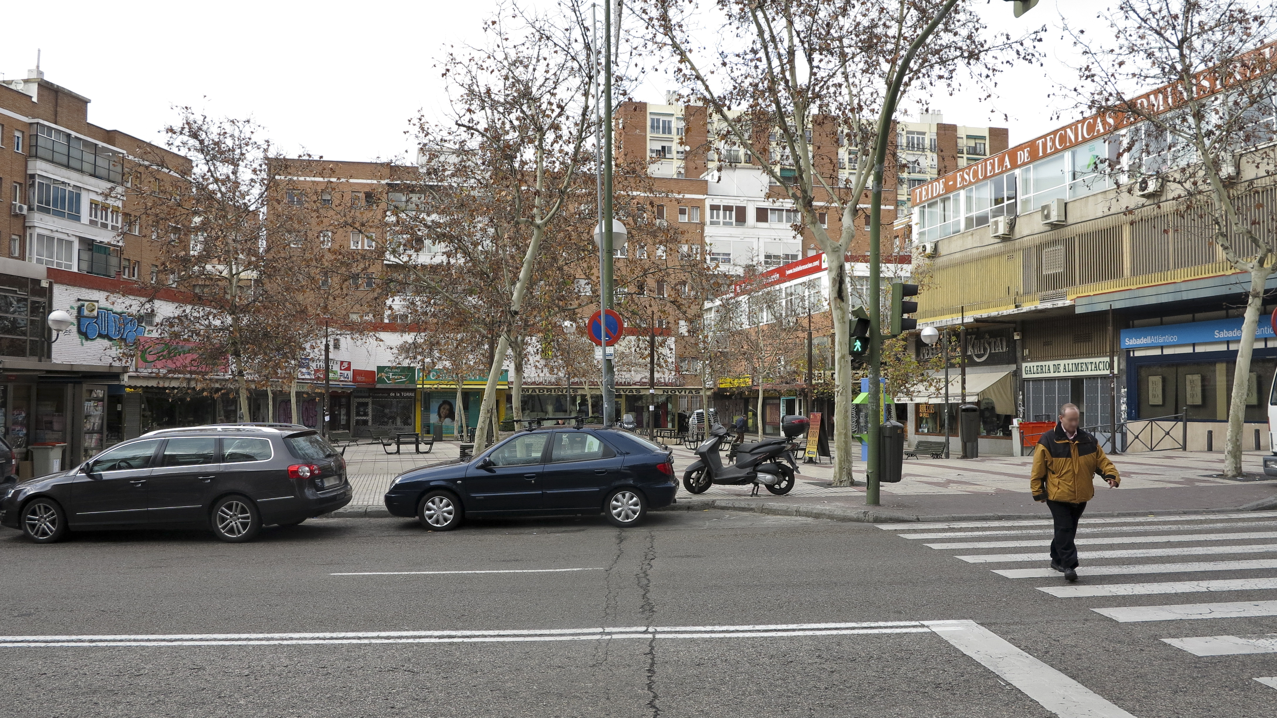 Plaza Quintana, Ciudad Lineal, Madrid, Spain.